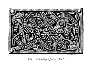 Finds from Vendel era boat grave VII